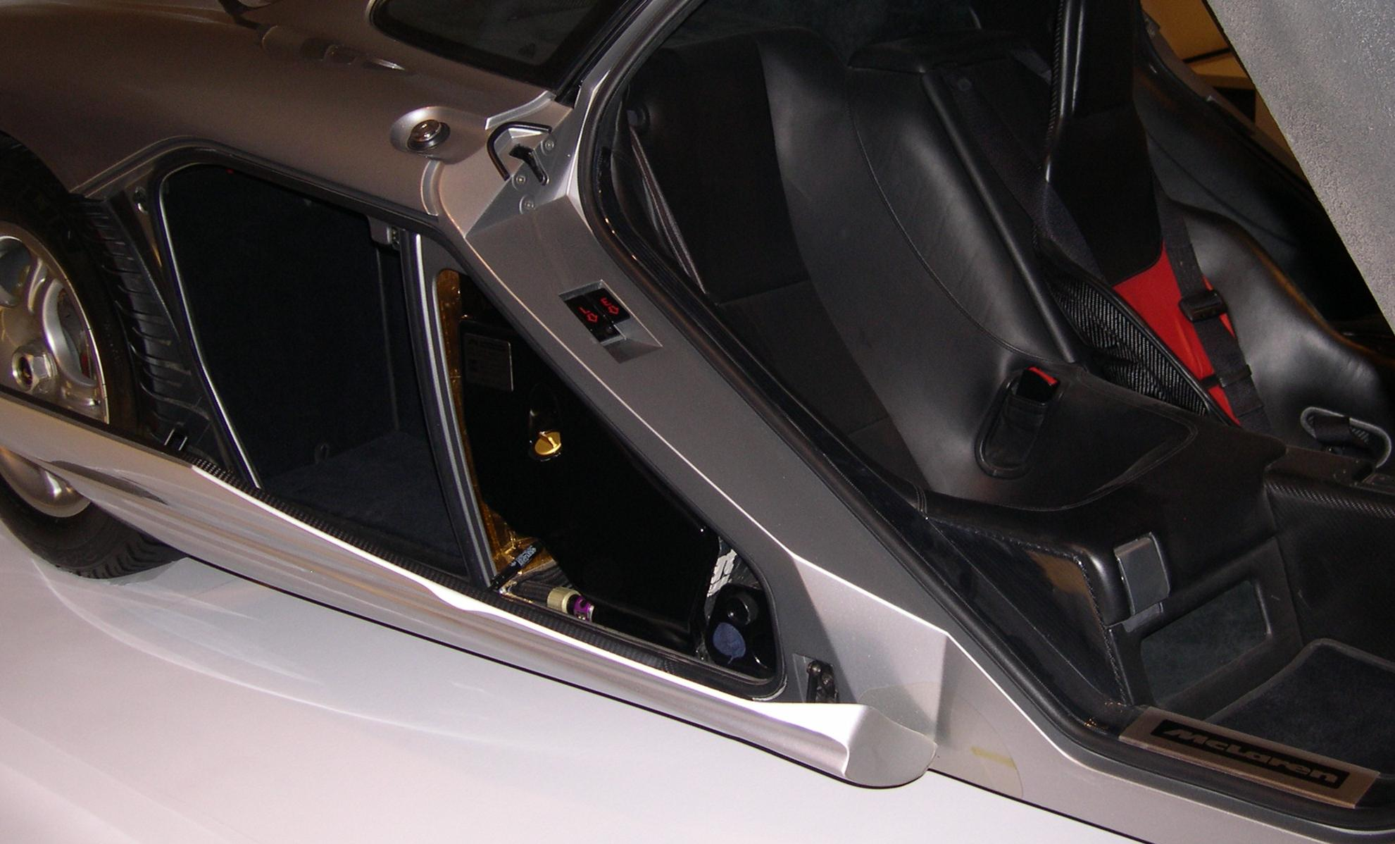 1996 McLaren F1 Side luggage compartment From the Ralph Lauren collection on display at the Boston Museum of Fine Arts. Photo taken in 2005. Source: Photo by User:Sfoskett